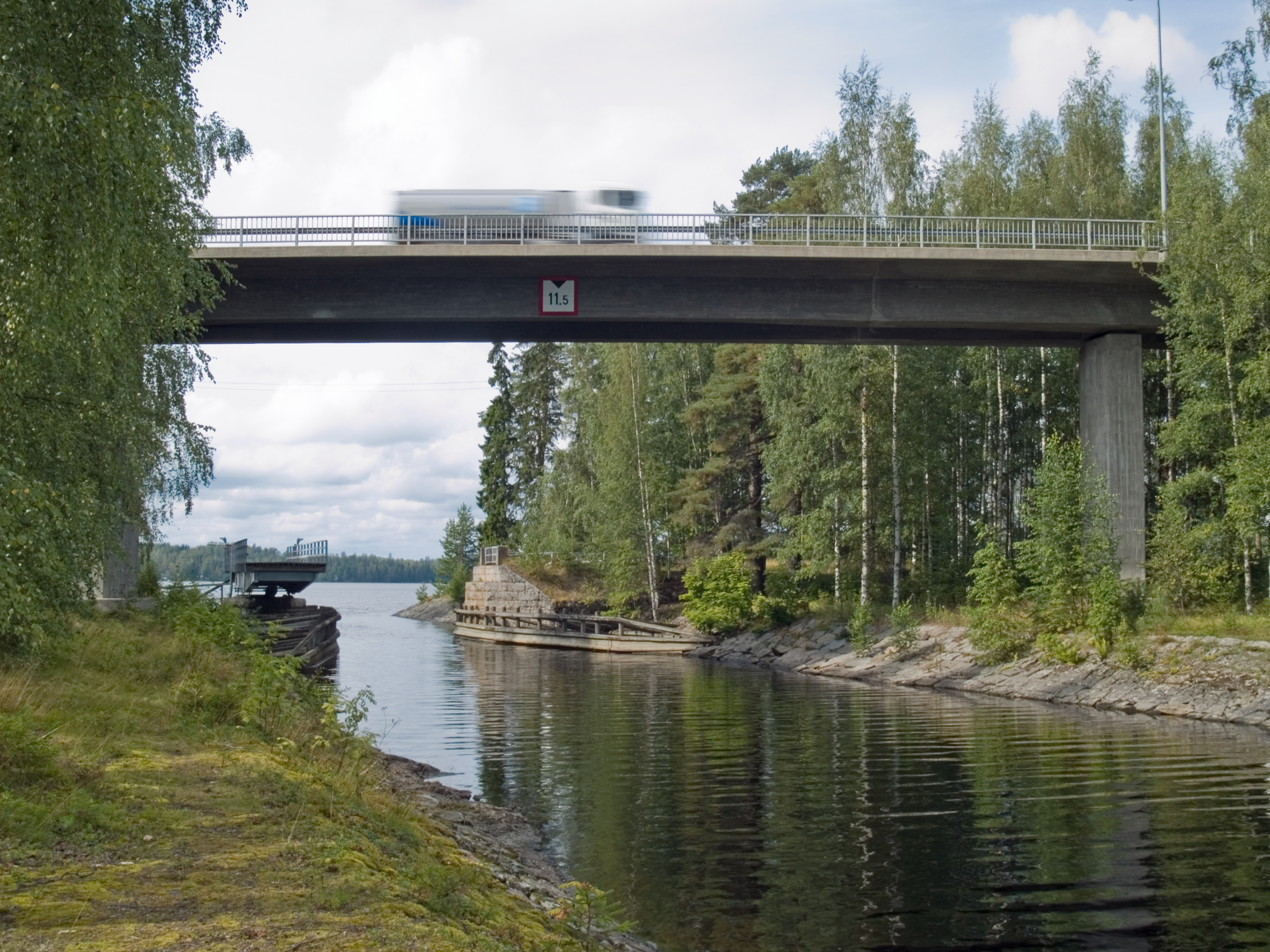 Kauttu canal (Kautun kanava) connects the lakes Ruovesi and Palovesi in Ruovesi, Finland. Road 66 runs across it via concrete bridge. August 2012.